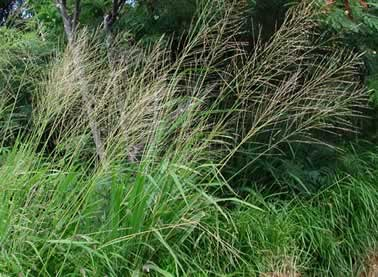 Homolepis glutinosa This image or media file contains material based on a work of a National Park Service employee, created as part of that person's official duties. As a work of the U.S. federal government, such work is in the public domain in the United States. See the NPS website and NPS copyright policy for more information.